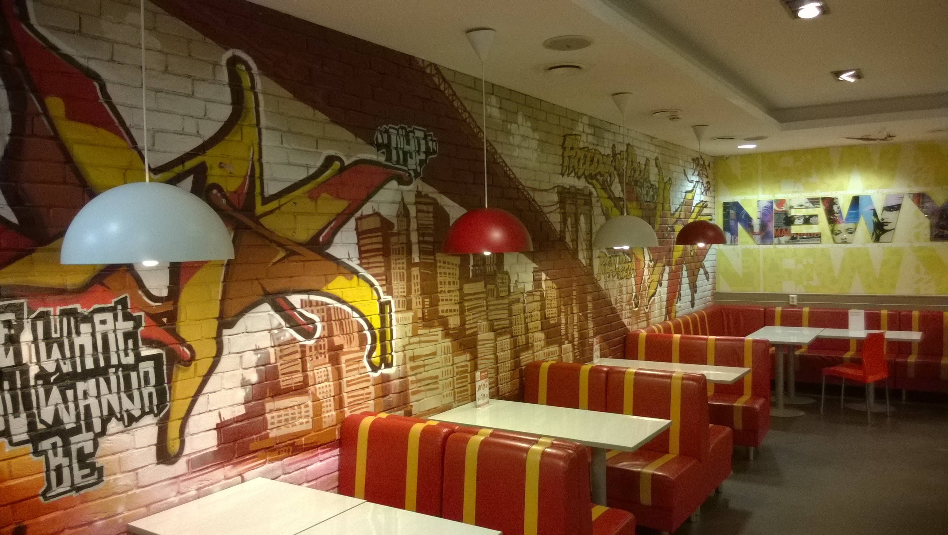 New York Pizza, Krasny Avenue, 47, Novosibirsk.